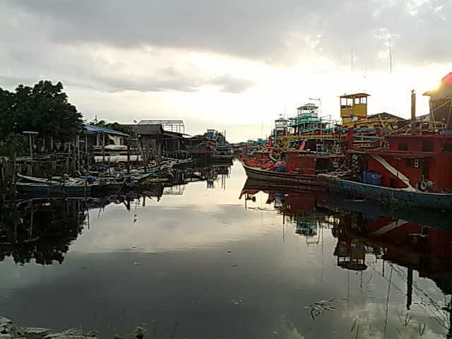 Boats in Sungai Besar in 2010